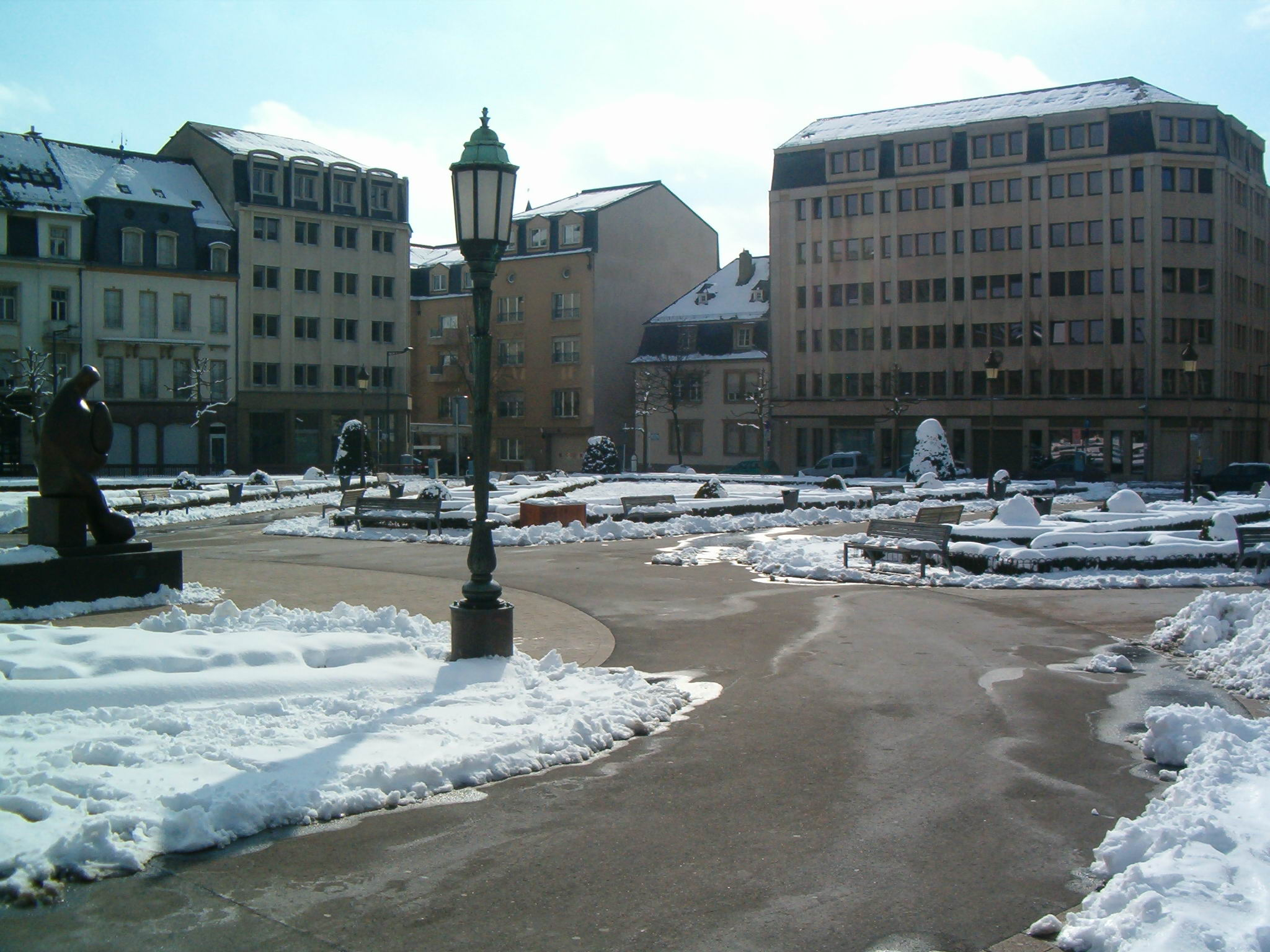 Place des Maryrs, Luxembourg City.